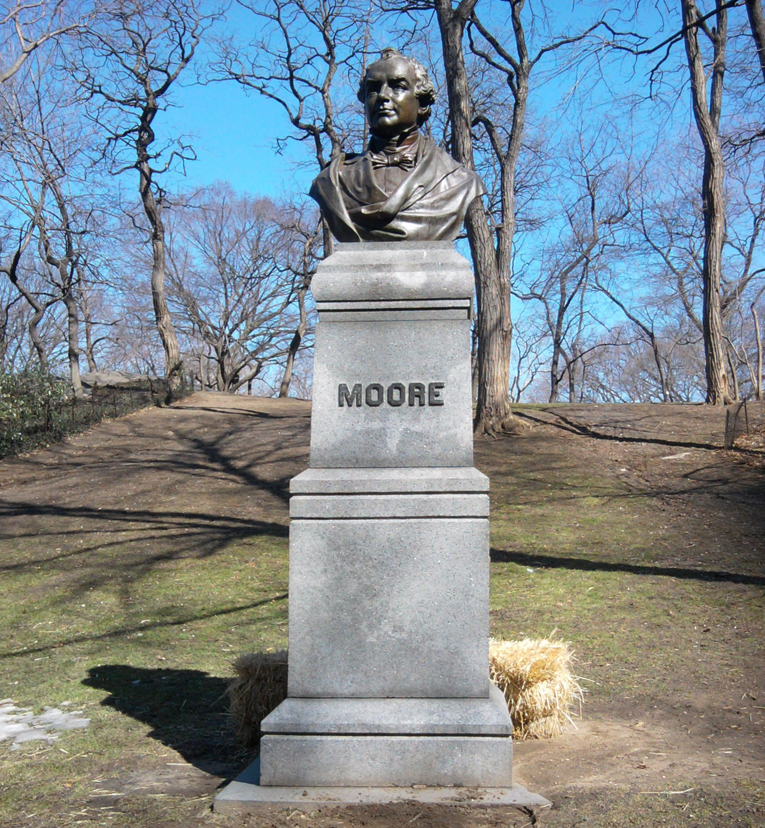 Looking east at bust of Moore on a sunny day.